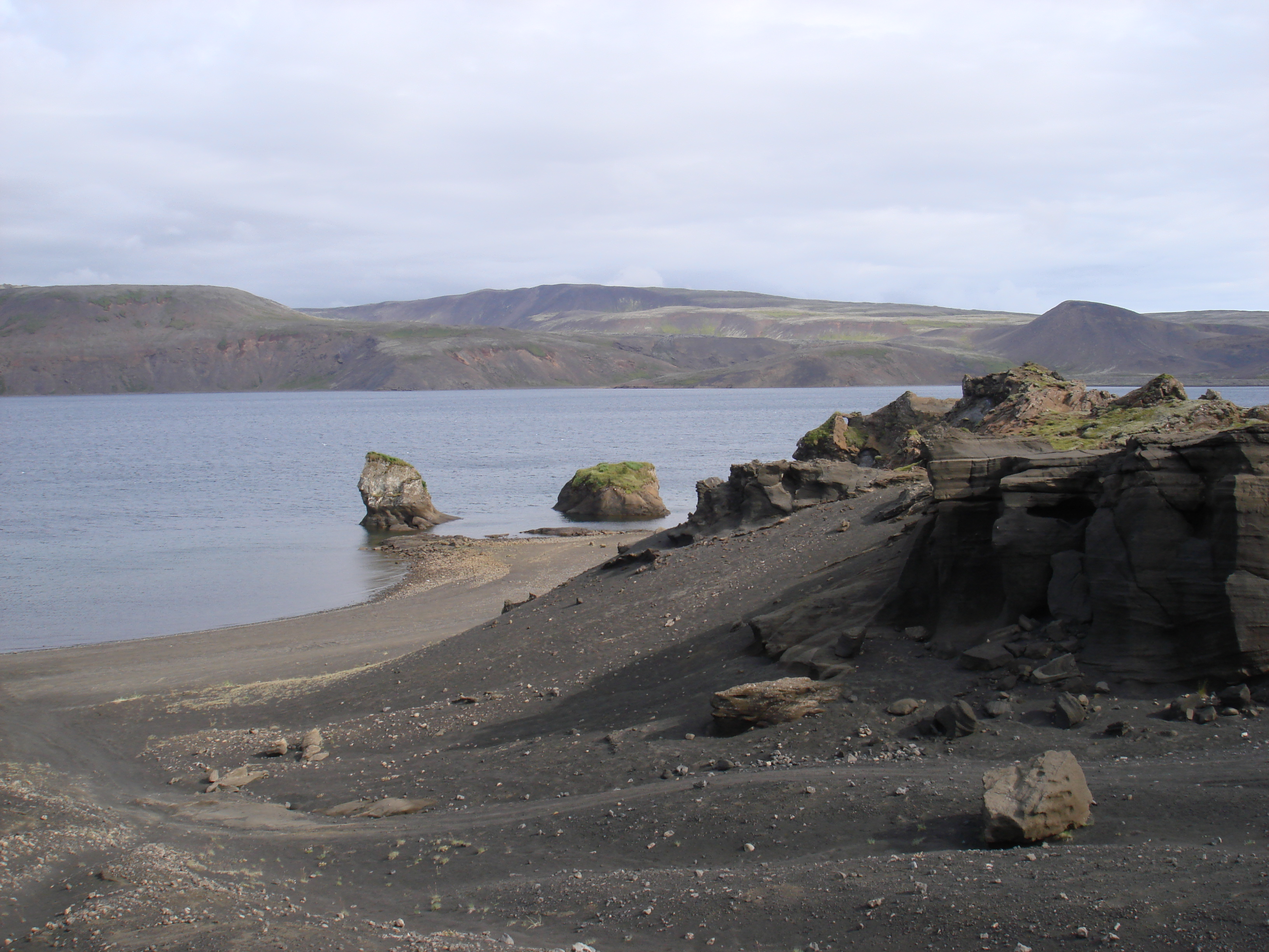 Kleifarvatn Lake, with black volcanic baches in Reykjanes peninsula, Iceland